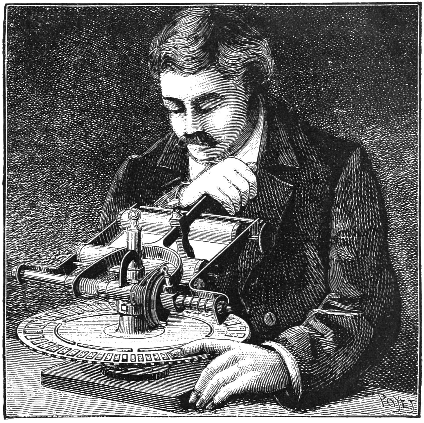 A blind man writing with the Mauler machine